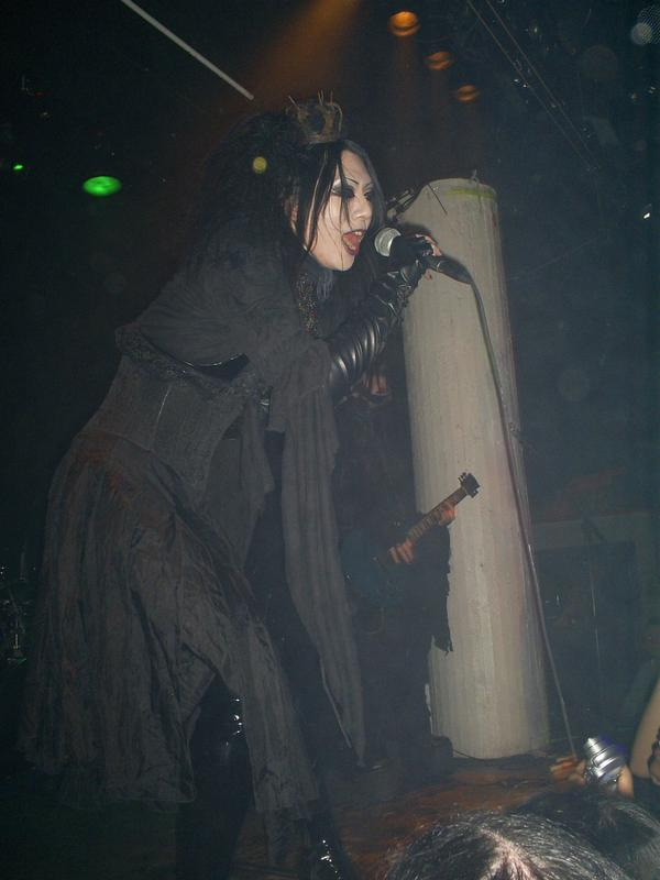 GPKism playing at Santo's Party House in New York, NY. Feb 2009. Picture taken by me